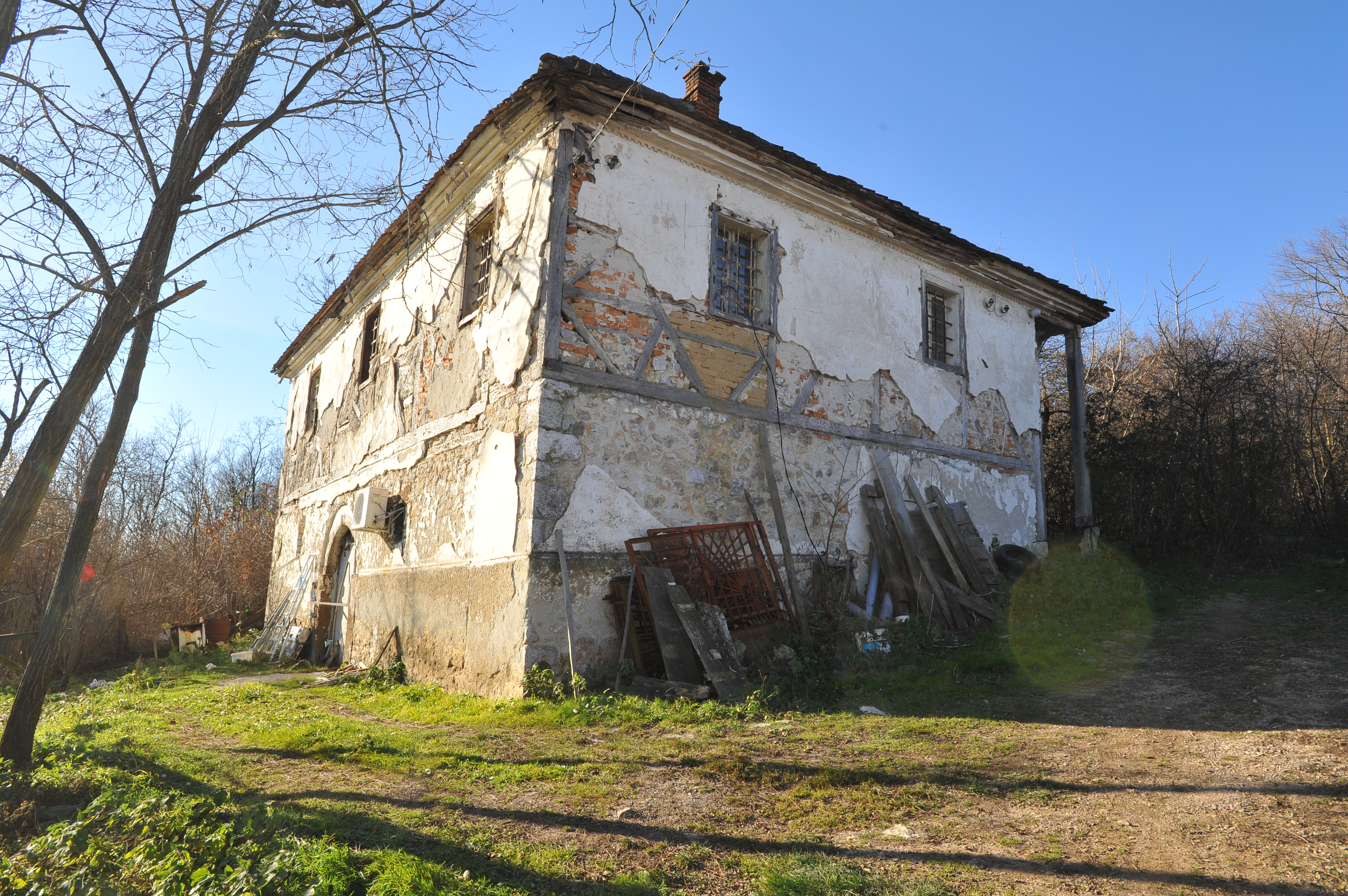 House of family Ilić in Nepričava, Lajkovac